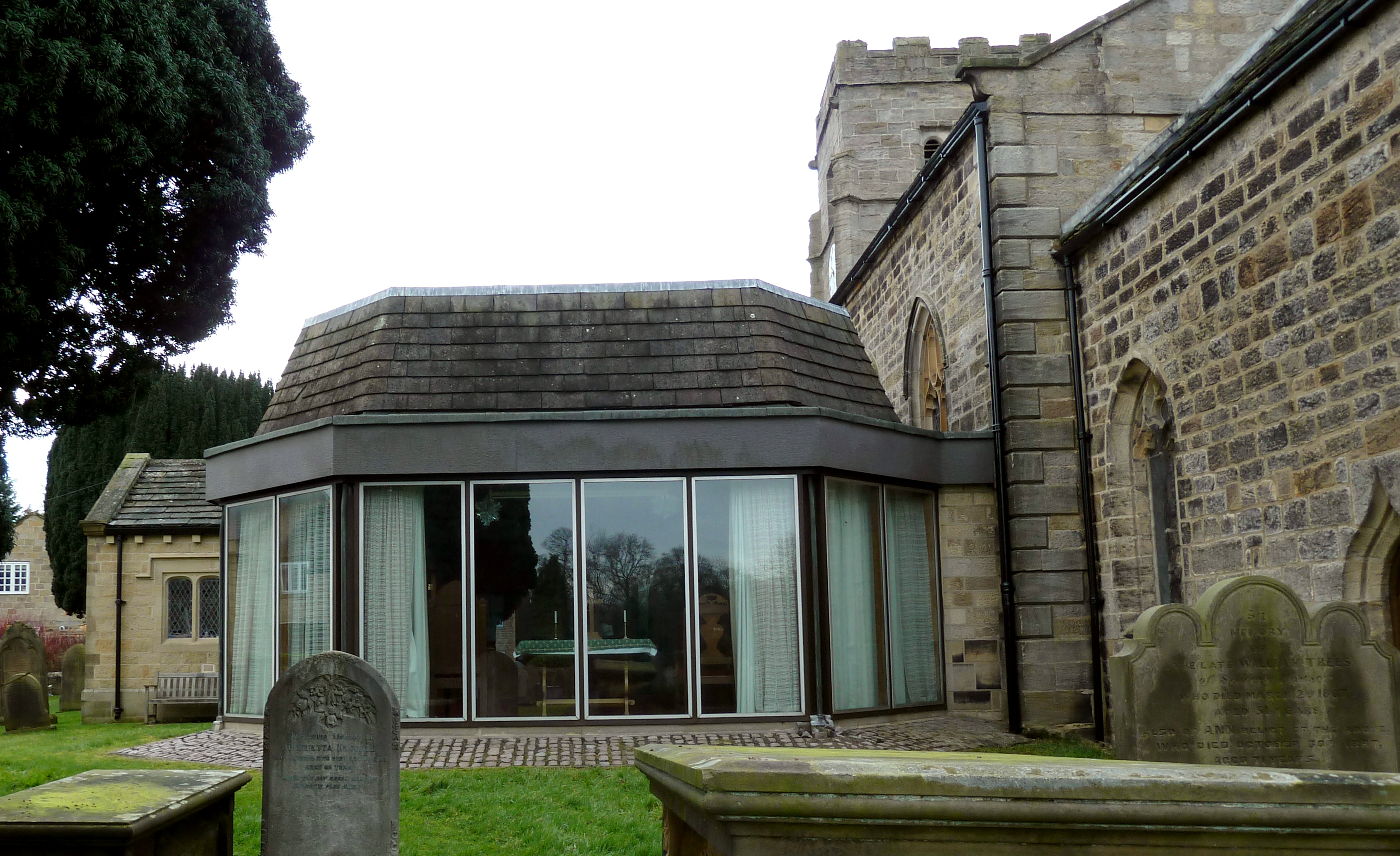 St Roberts Church, Pannal, North Yorkshire, England. East elevation of chapter house.